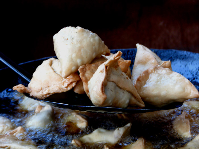 Samosa